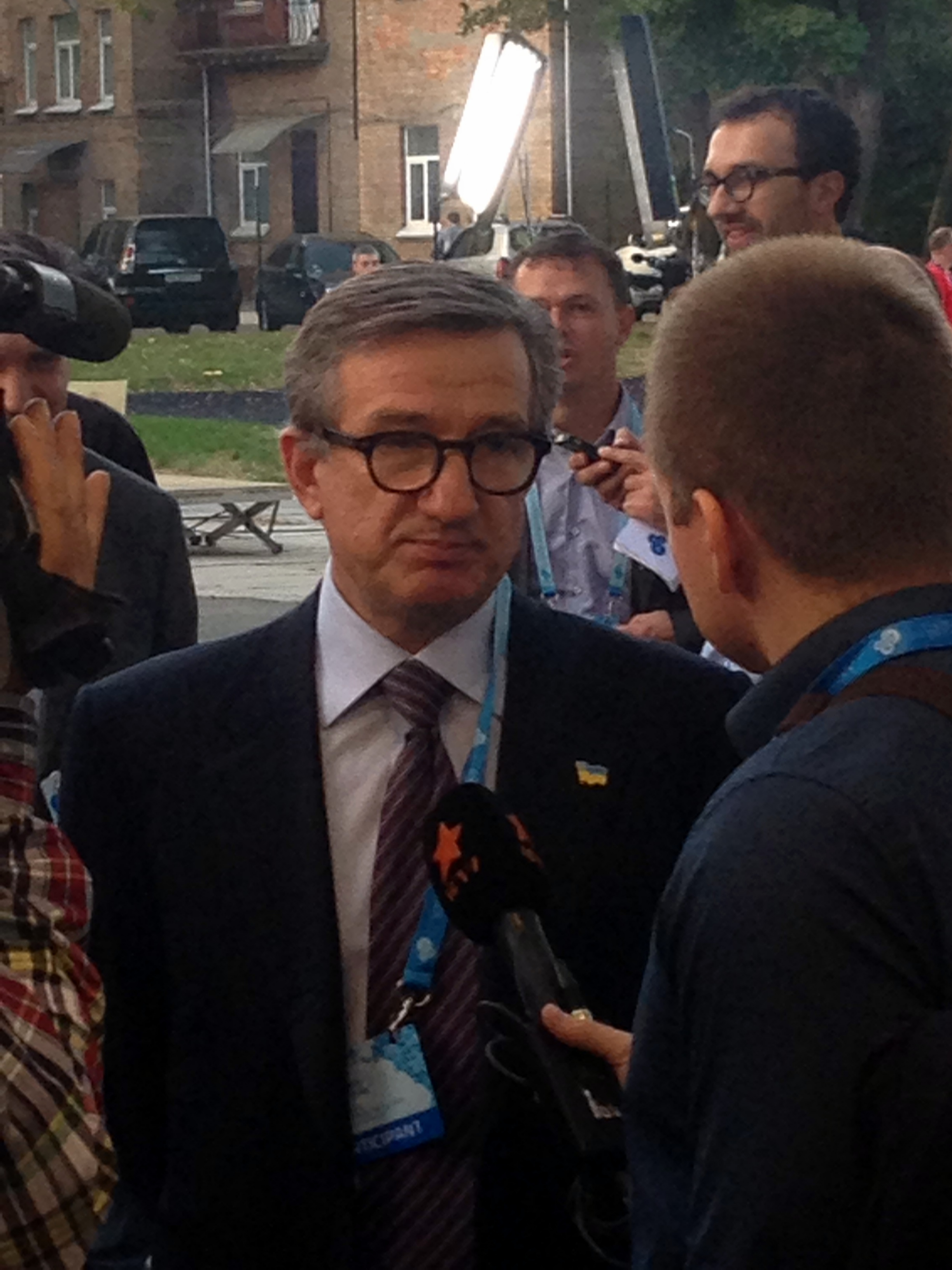 Serhiy Taruta at Yalta European Strategy 2014